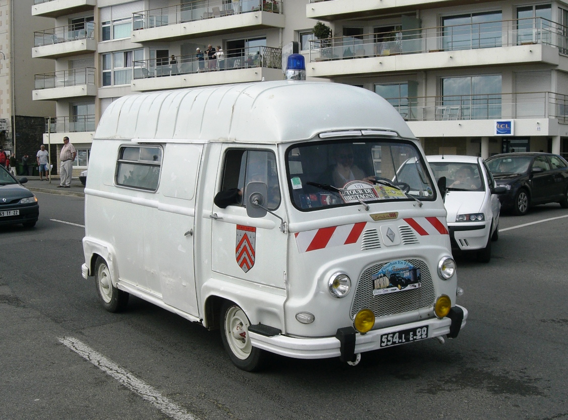 Renault Estafette, on the way to a oldtimer meeting in Brittany